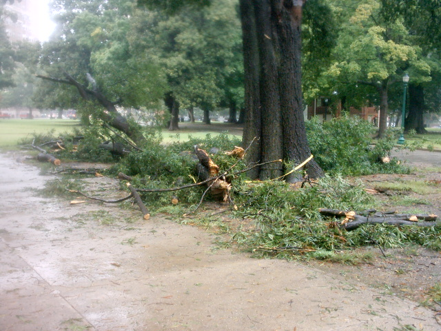 Picture of a fallen tree branch in Richmond, Virginia from Hurricane Ernesto.